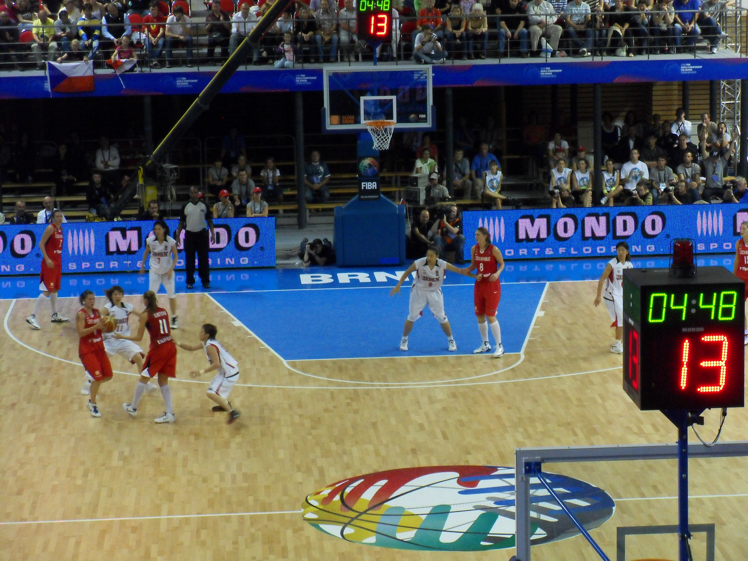 Japan - Czech Republic match at 2010 FIBA World Championship for Women, Brno, Czech Republic